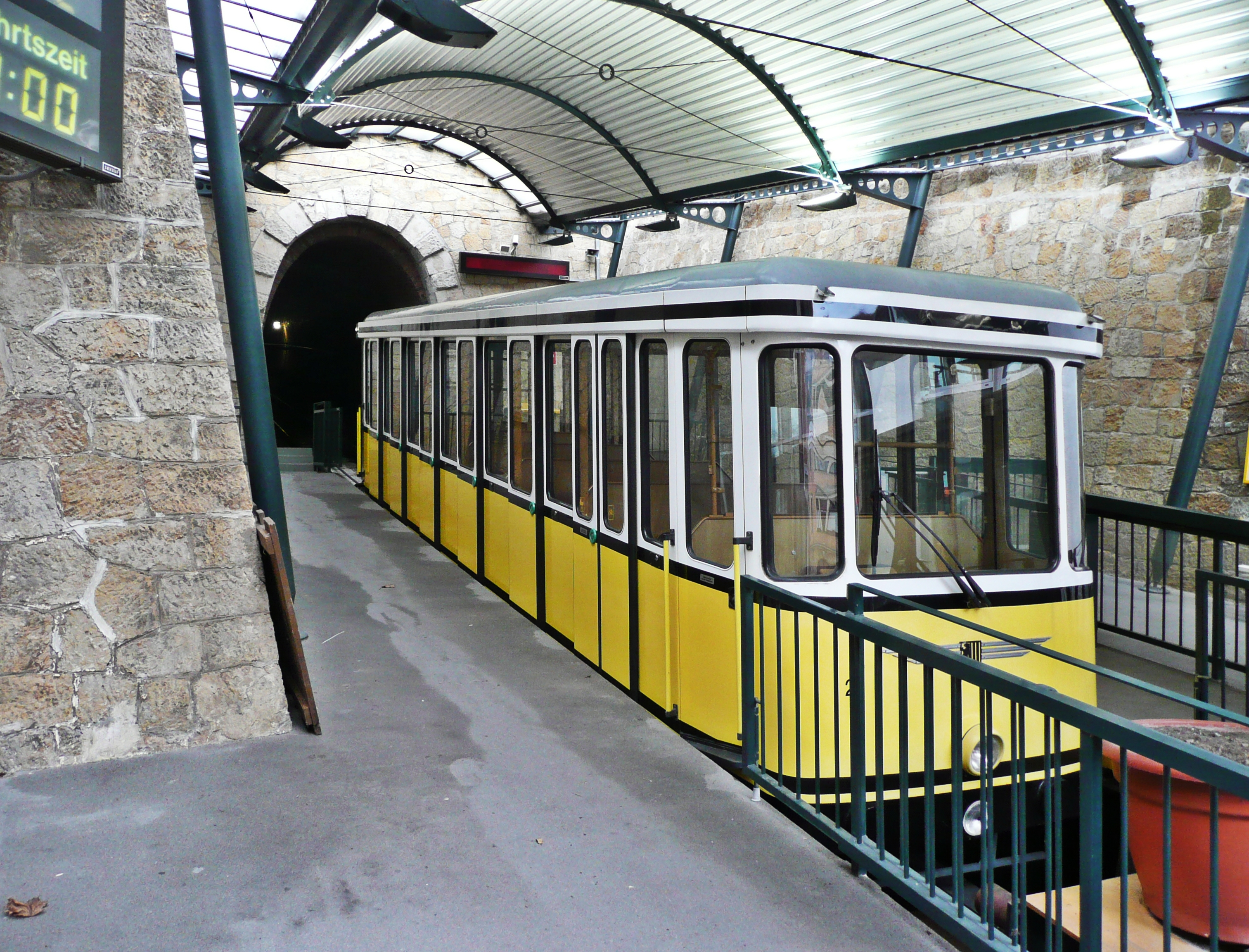 This image shows the Standseilbahn Dresden in Dresden, Saxony.